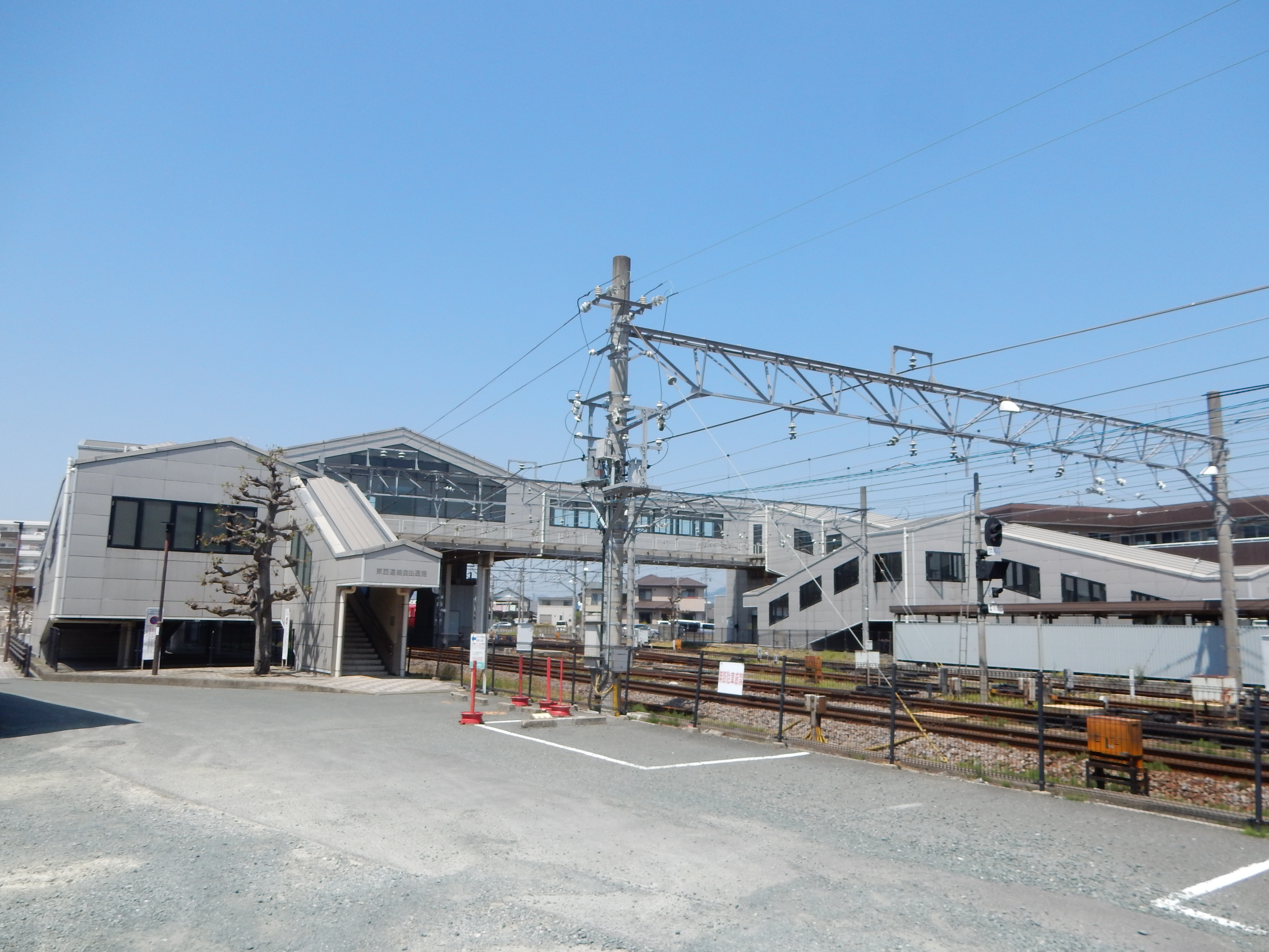 Ina Station (伊奈駅), at 292-1 Minamiyamashinden, Inacho, Toyokawa, Aichi prefecture, Japan